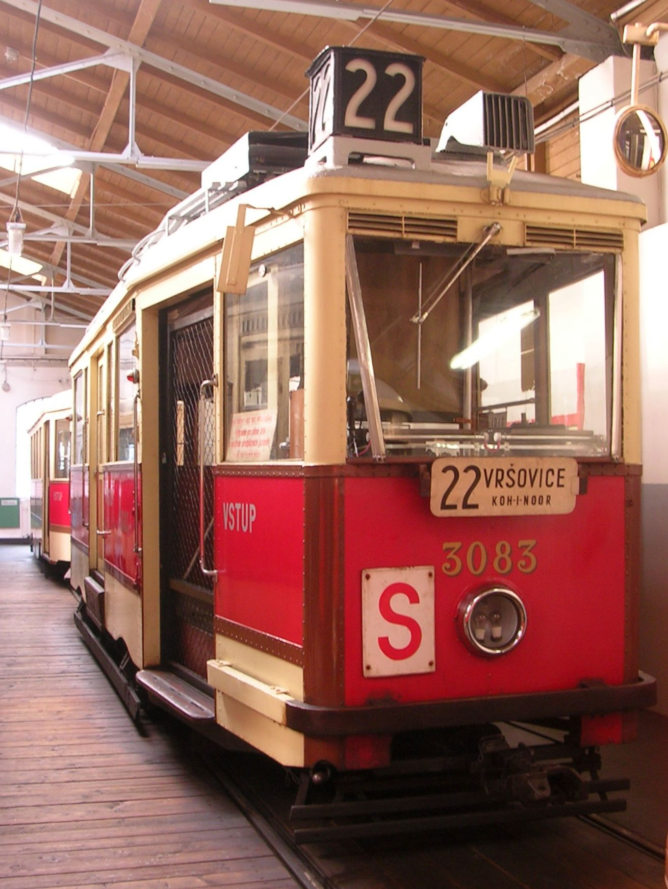 Střešovice, Prague, the Czech Republic. A historical tram.